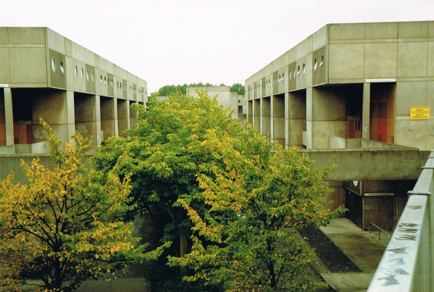 Photo of Southgate Estate in Runcorn, Cheshire, UK, taken in August 1989